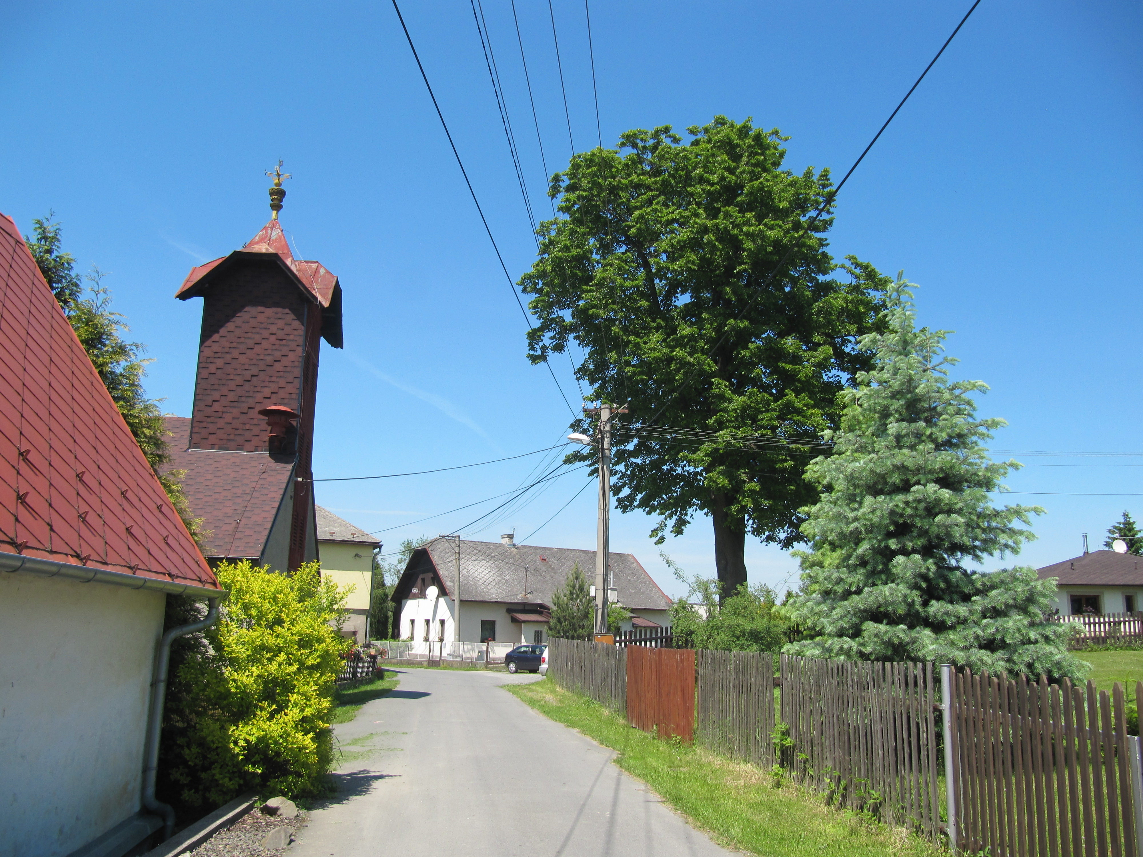 Hradec nad Moravicí, Opava District, Czech Republic, part Filipovice.